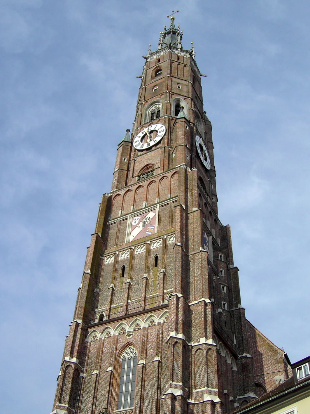 Landshut, Parish and Collegiate Church of St Martin and Castulus. Bell tower.